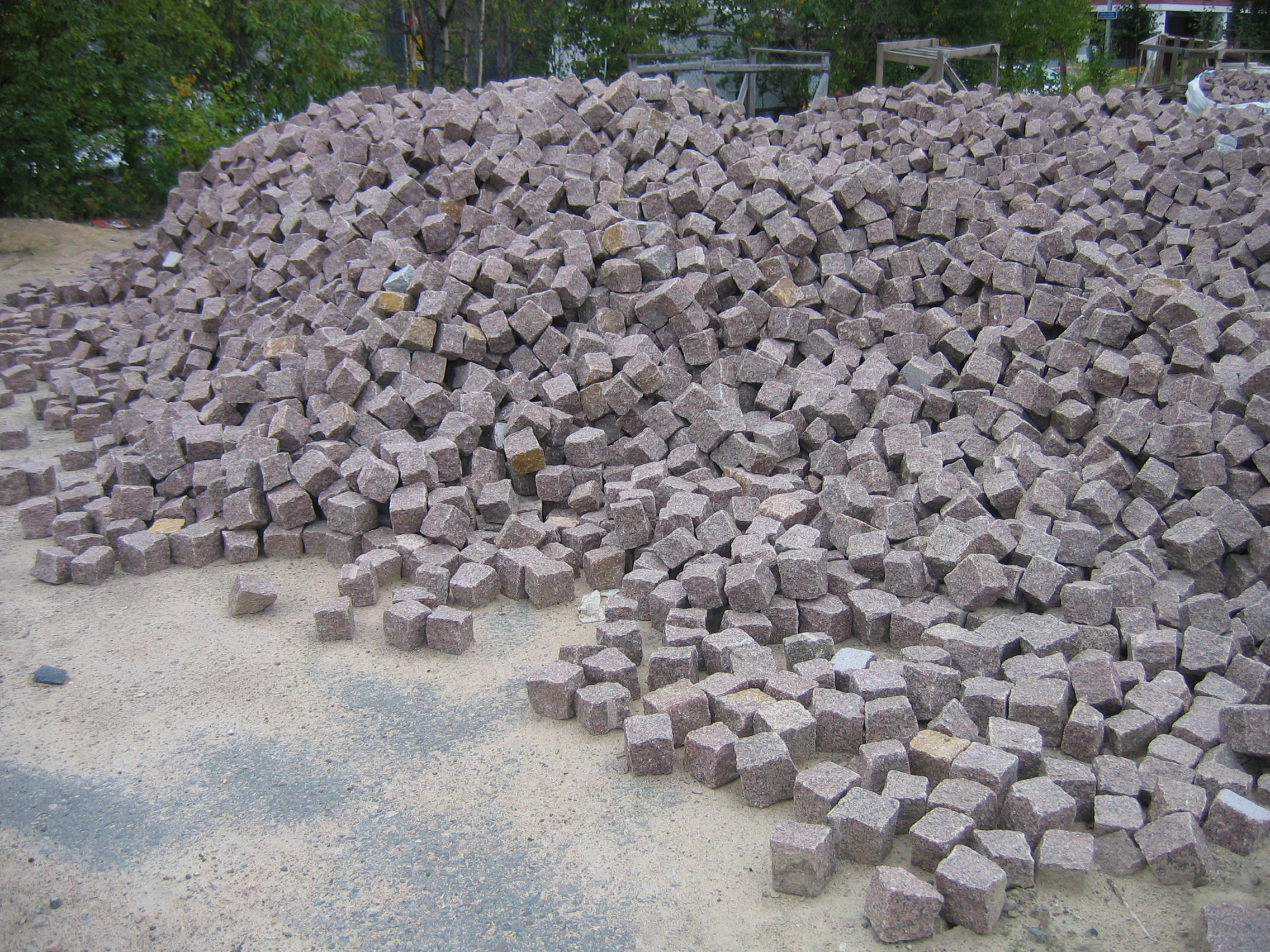 A pile of red granite stones used to pave streets, photographed in Oulu, Finland.